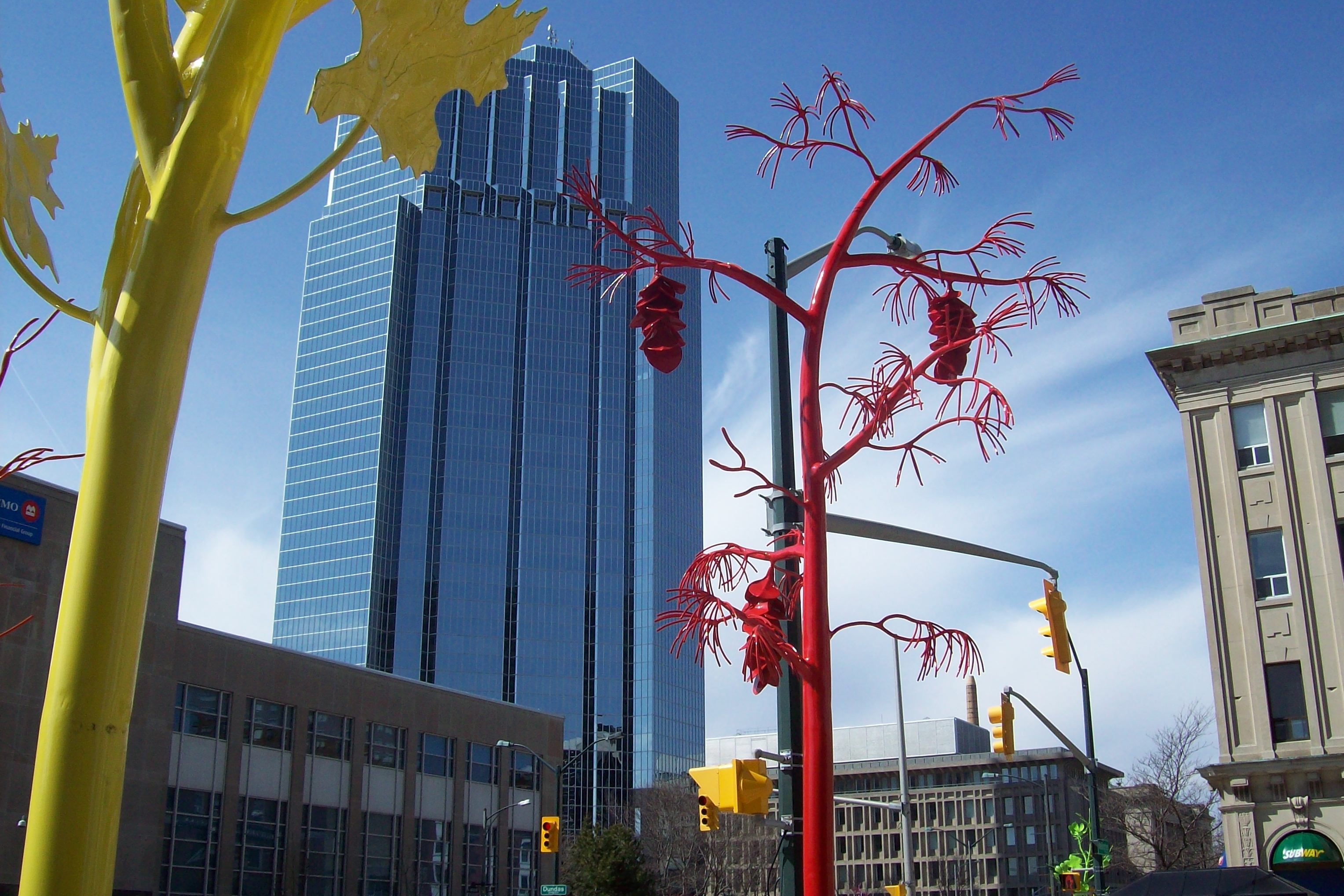 London metal street trees along Dundas Streets and Wellington and King Street. London Ontario Canada